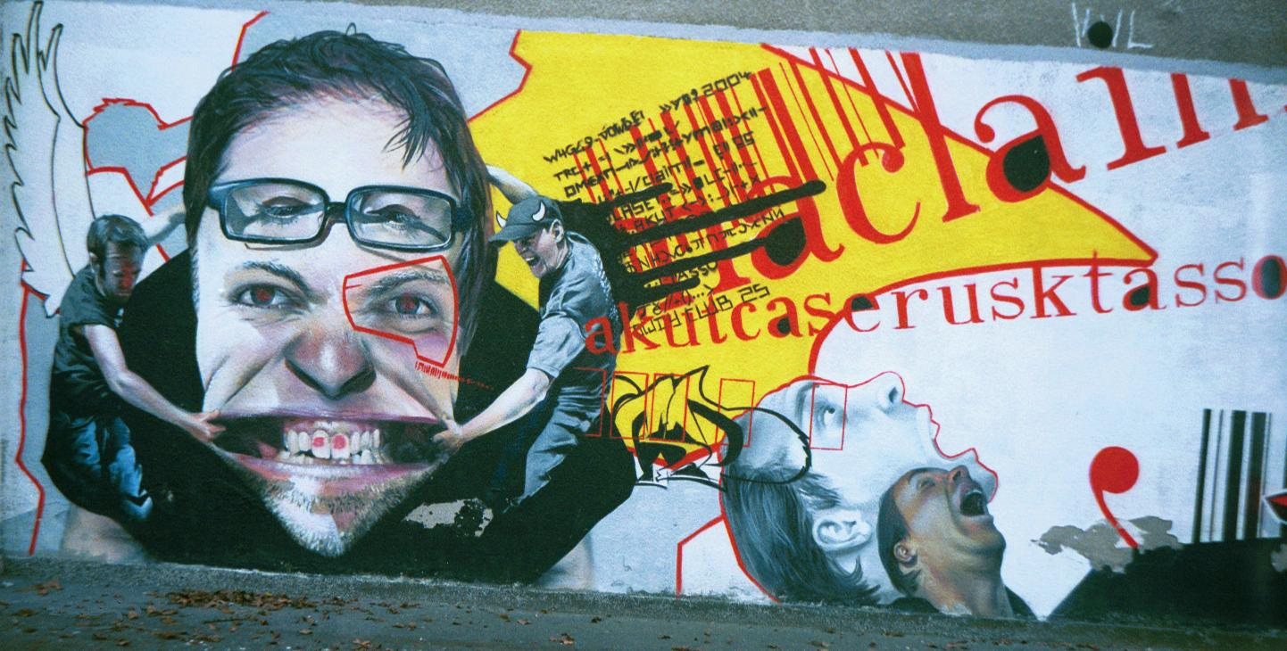 Graffiti in Warsaw